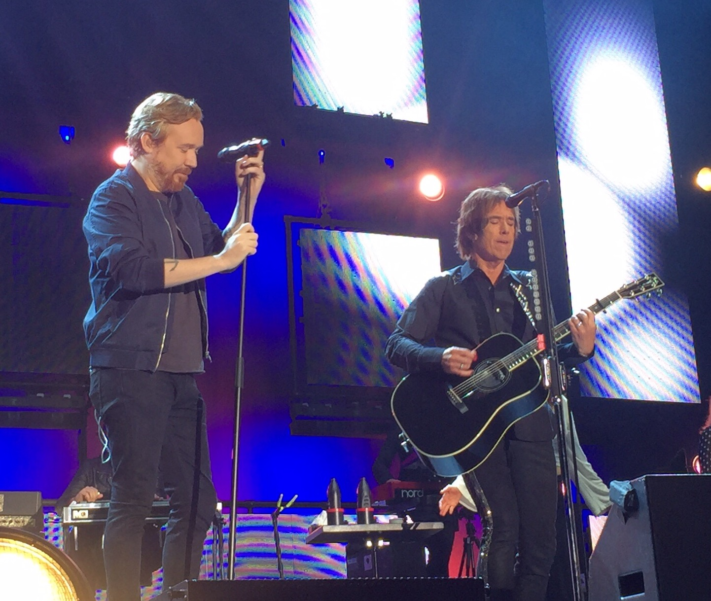 Swedish artists Lars Winnerbäck and Per Gessle during the concert in Halmstad, Sweden on 11 August, 2017